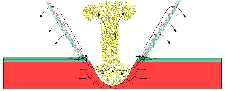 Nördlinger Ries, schematic drawing of cratering event. Third phase: Ejection and excavation of the primary crater. Simplified, schematic drawing based on the references listed below.